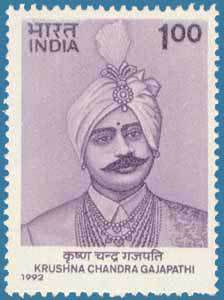 Krushna Chandra Gajapati